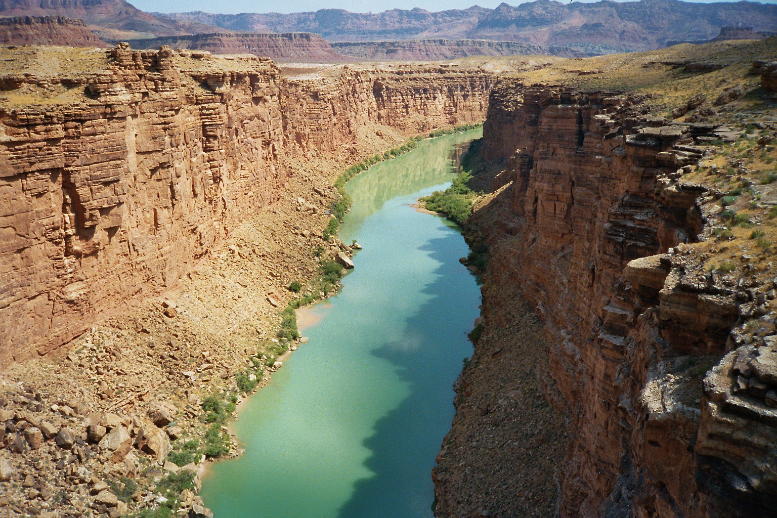 Colorado River in Marble Canyon —in Coconino County, Arizona.